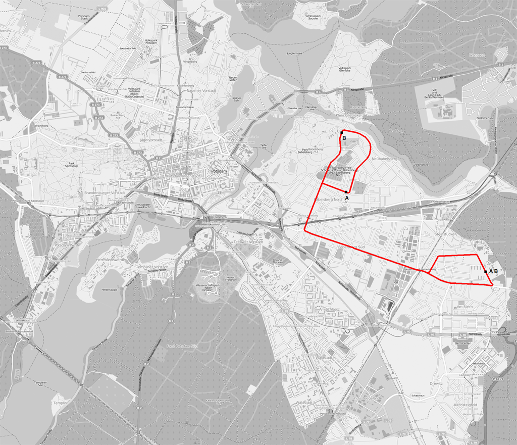 Trollybus system of Potsdam, situation from 1971 to 1995